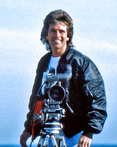 Ron Roy is shooting "Pacific Surf" (Moodtapes album)